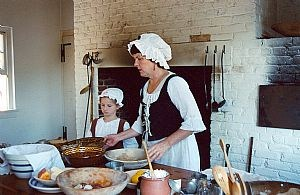 This is a typical middle class colonial kitchen in Virginia. Here is a young girl helping out her mother with the work to be done.